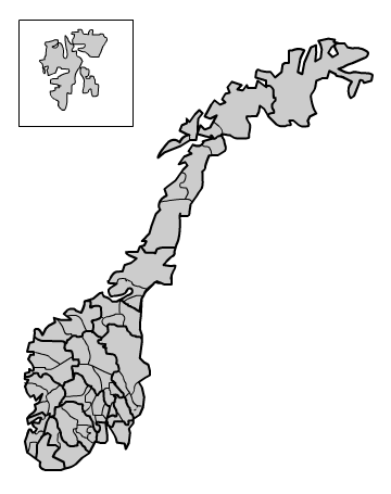 Map of counties and districts of Norway. Large lines : county boundaries ; thin lines : district borders.